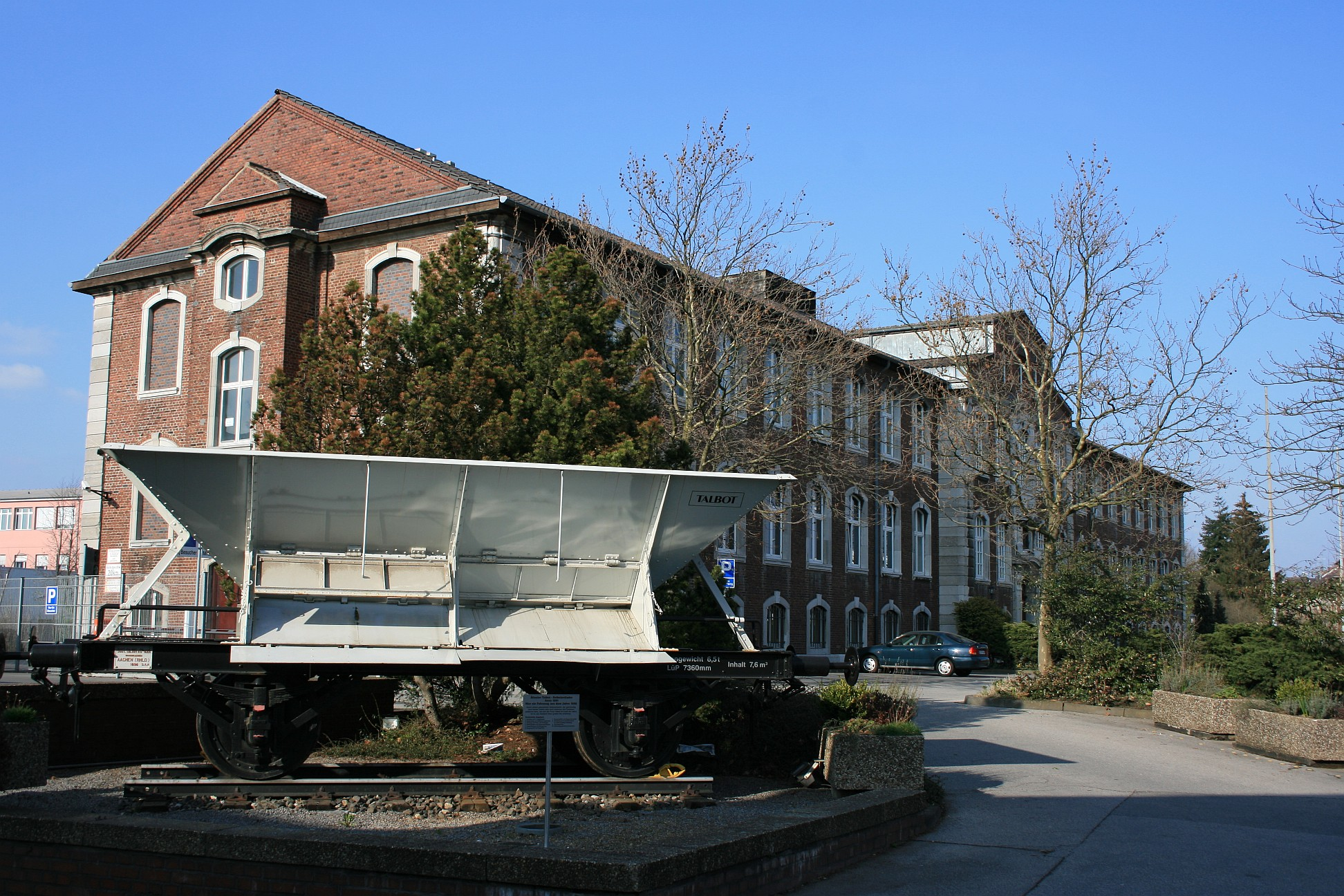 Talbot Aachen